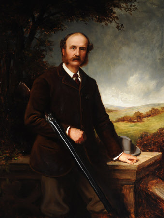 Charles Henry Wilson, 1st Baron Nunburnholme (1833-1907), 1880-1890. A three-quarter-length portrait of a man, standing with a gun under his right arm, his left hand resting on a stone balustrade on which sits his grey hat. He is balding with side whiskers and moustache, dressed in a dark brown jacket, light brown trousers, white shirt and brown tie. Trees in the background on the left, and view of a distant horizon with hills, and cloudy sky on the right. One of the ten richest men in Britain. He owned the Wilson-Ellerker shipping line which traded out of Hull with the Baltic. He built Tranby Croft, an Italian inspired country house, outside Hull. A Member of Parliament and created a peer in 1906. Married Florence Wellesley who gave Beningbrough Hall (which she bought in 1917/18) to her son-in-law and daughter, 10th Earl and Countess of Chesterfield.